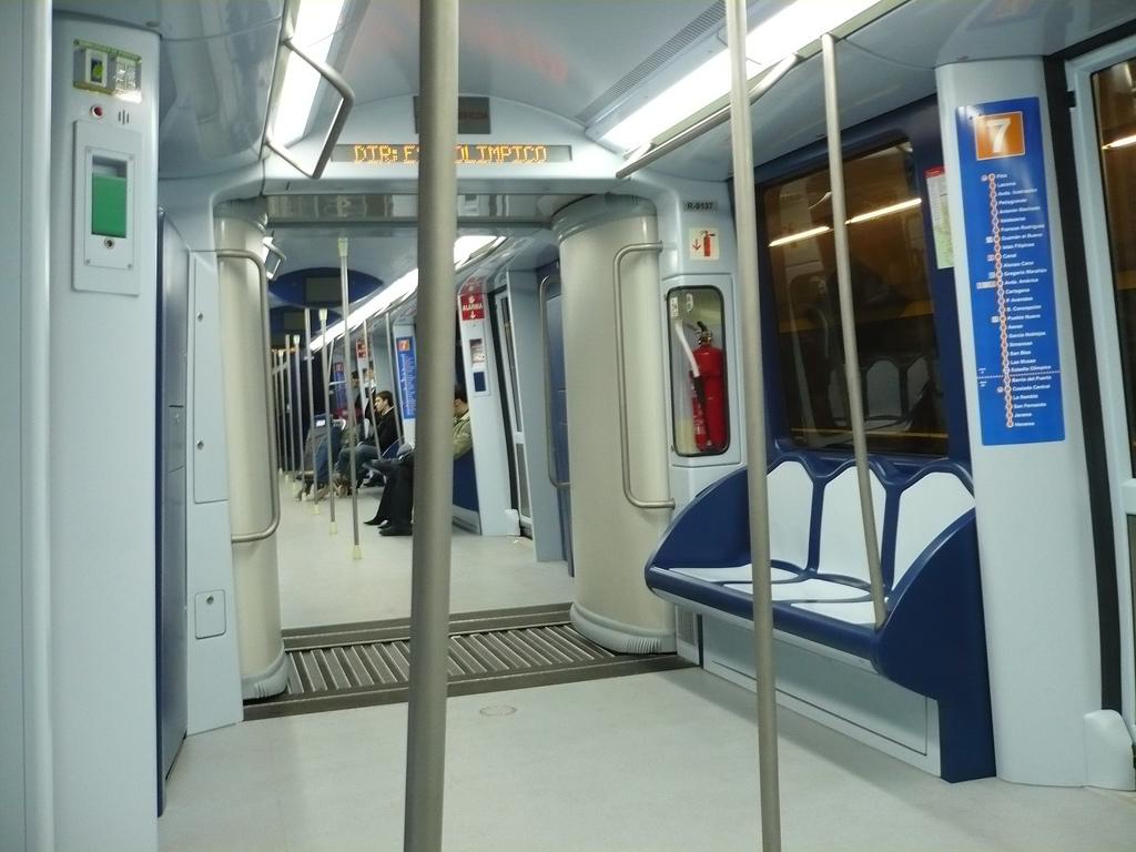 Interior of a Madrid's Metro train.